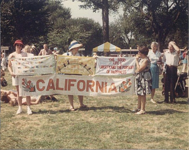 California Banner on Mall